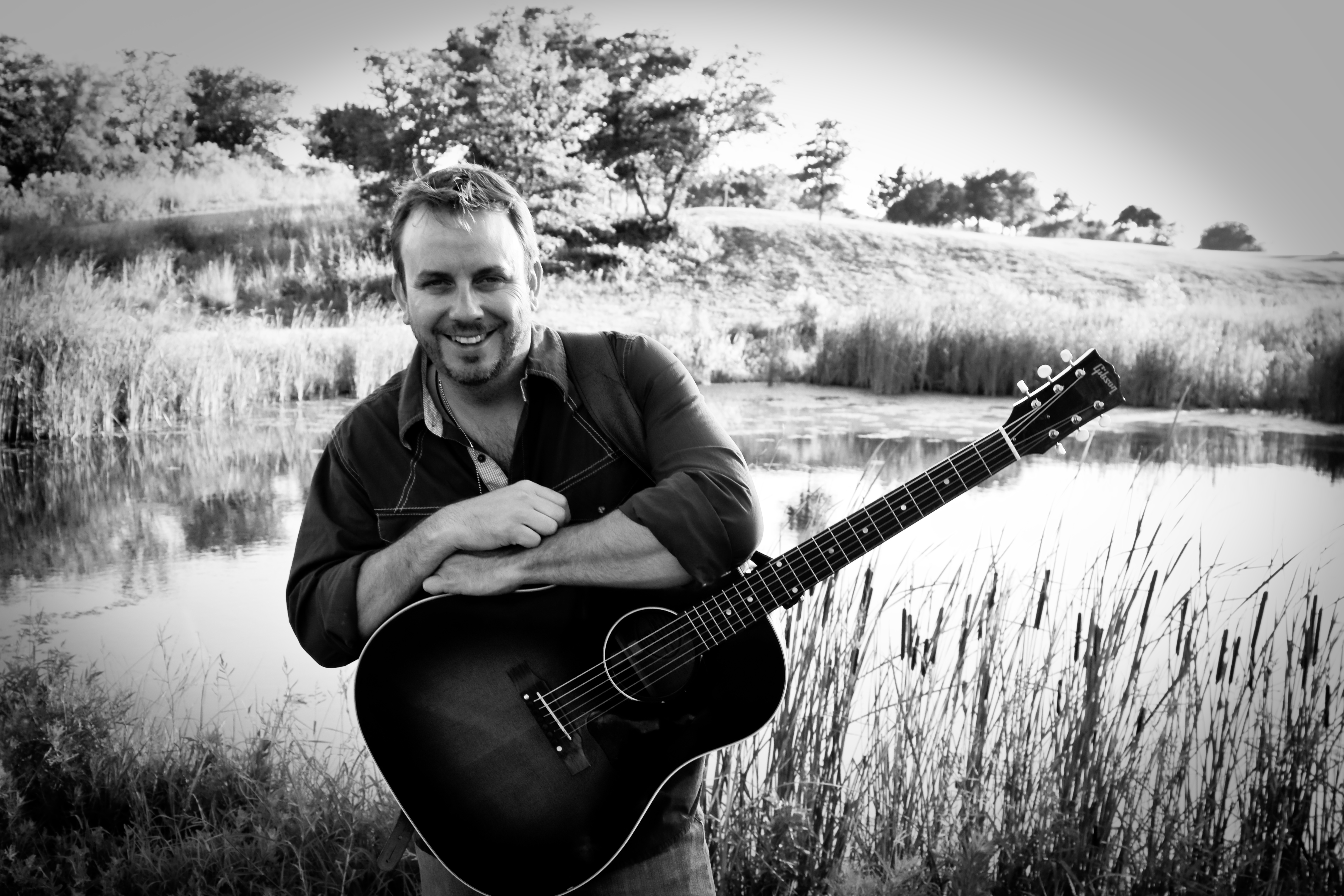 Brandon Rhyder Photo Shoot